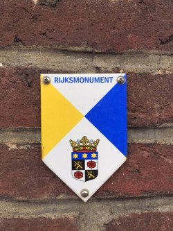 niet officiele foto